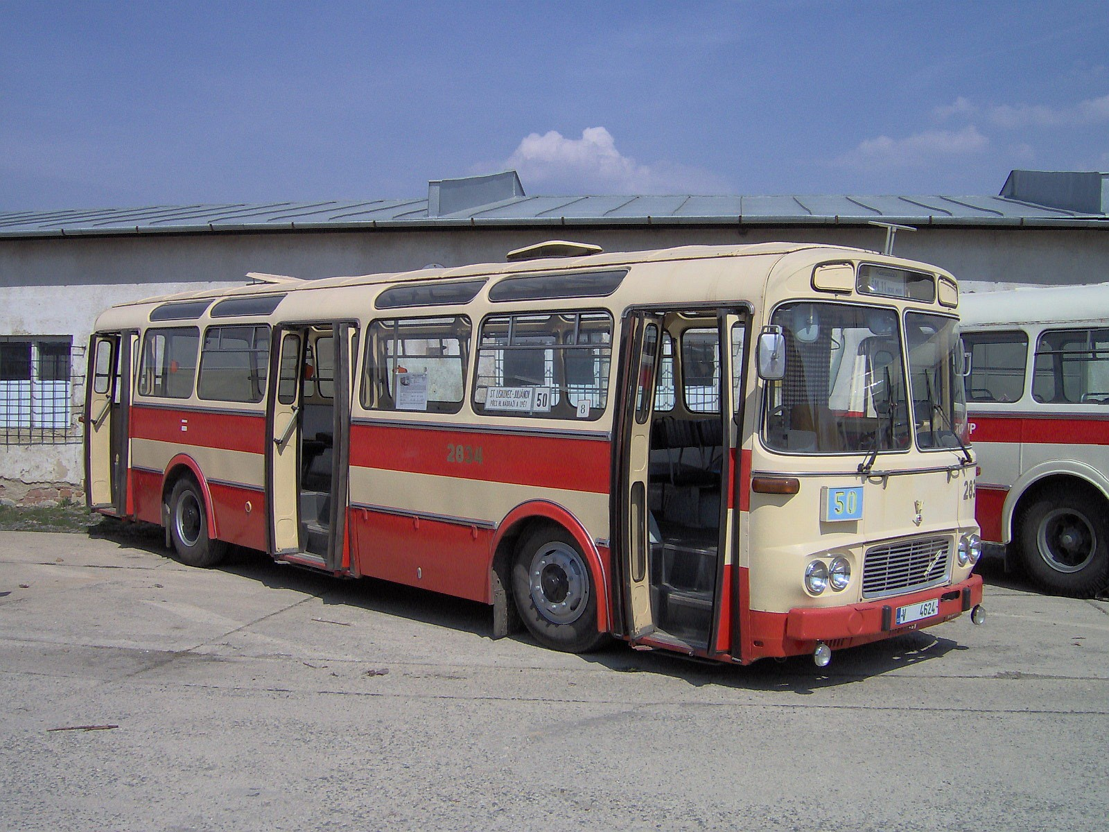 Historical bus Karosa ŠM 11 in Brno, Czech Republic